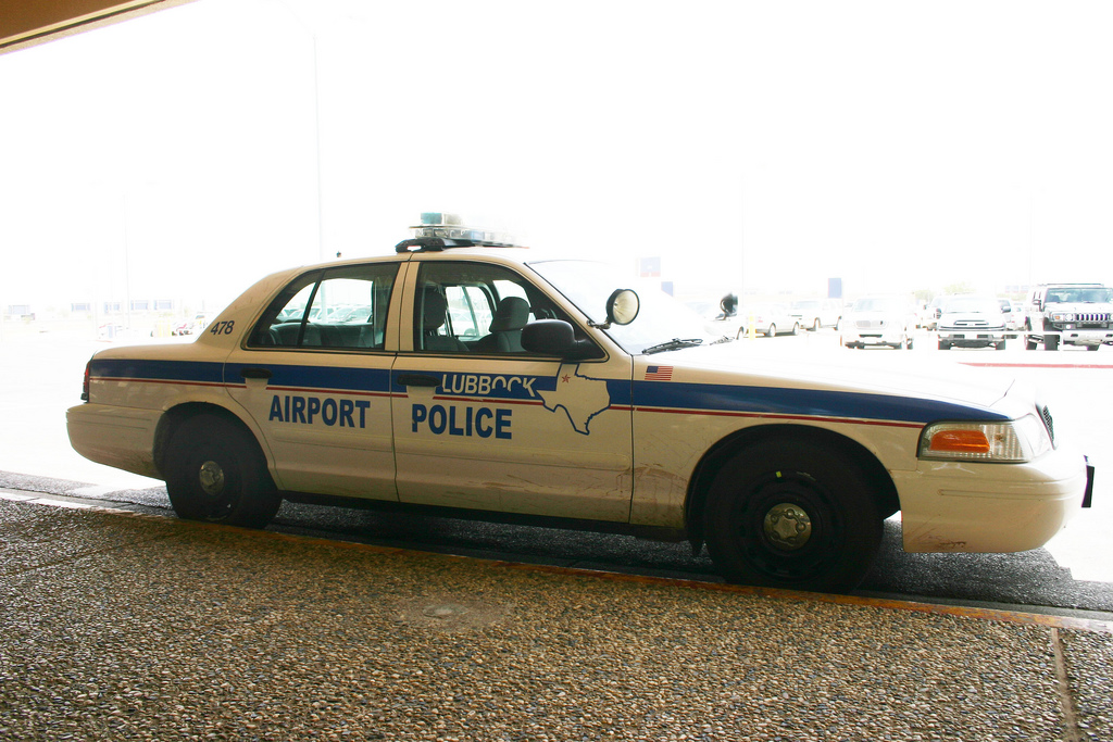 I am almost 100% sure that they use old city of Lubbock police cars for the airport. The paint scheme on Lubbock police cars are exactly the same. It also looks like the found the letters for airport police at Home Depot and stuck them on there. There were two cars sitting next to the last gate when I arrived and it was so funny because they had NOT moved three days later when I got came back to depart!